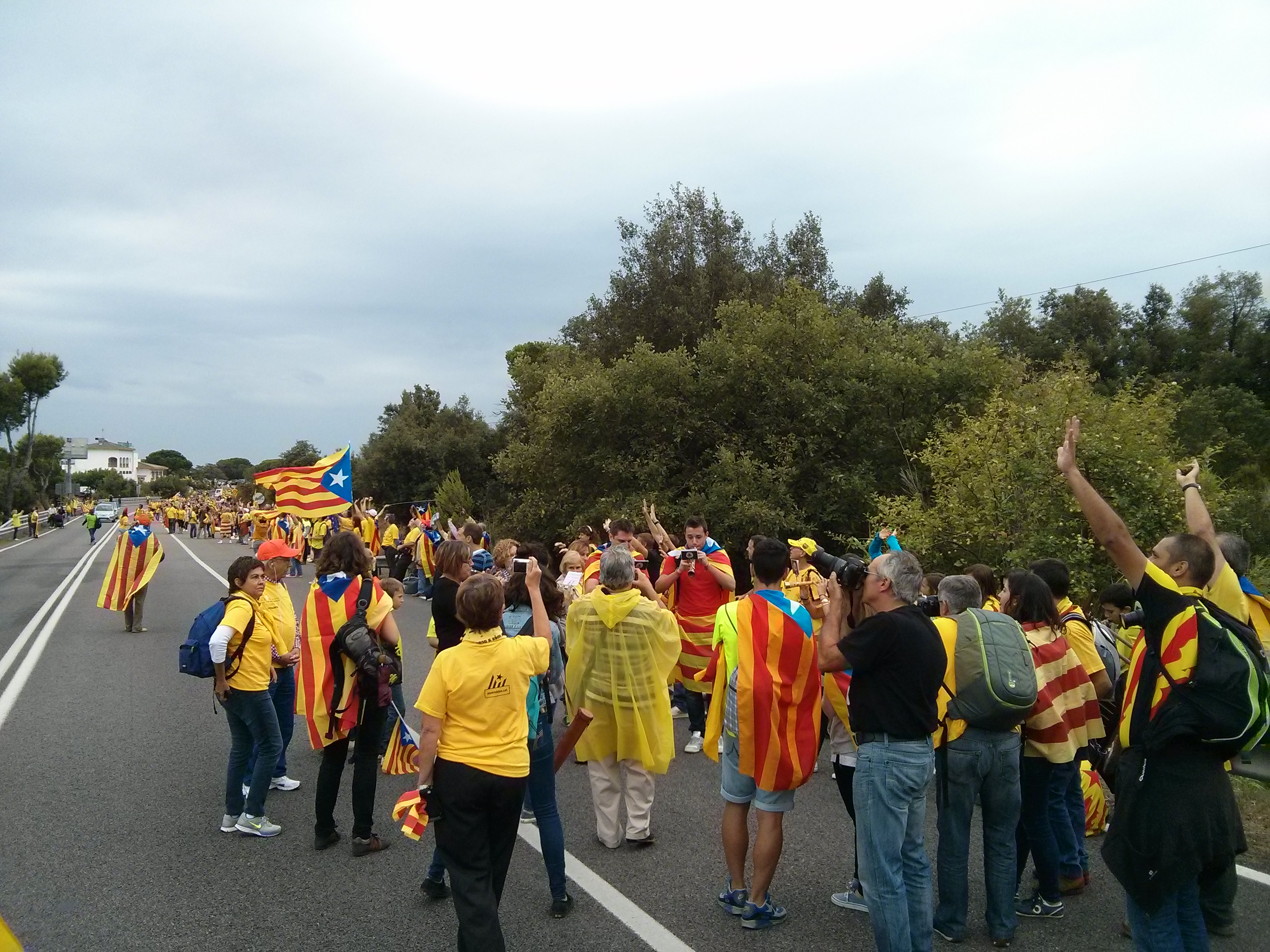 Hours before of the beginning Catalan Way in Palafolls (section 523)